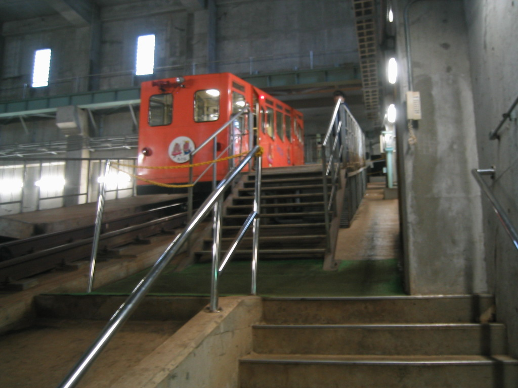 Mogura-go at Tappi Shako Line Seikan Tunnel Kinenkan Station in Aomori Prefecture, Japan